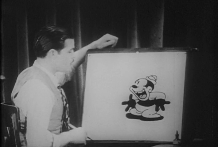 a still frame from the short film "Bosko The Talk-Ink Kid"